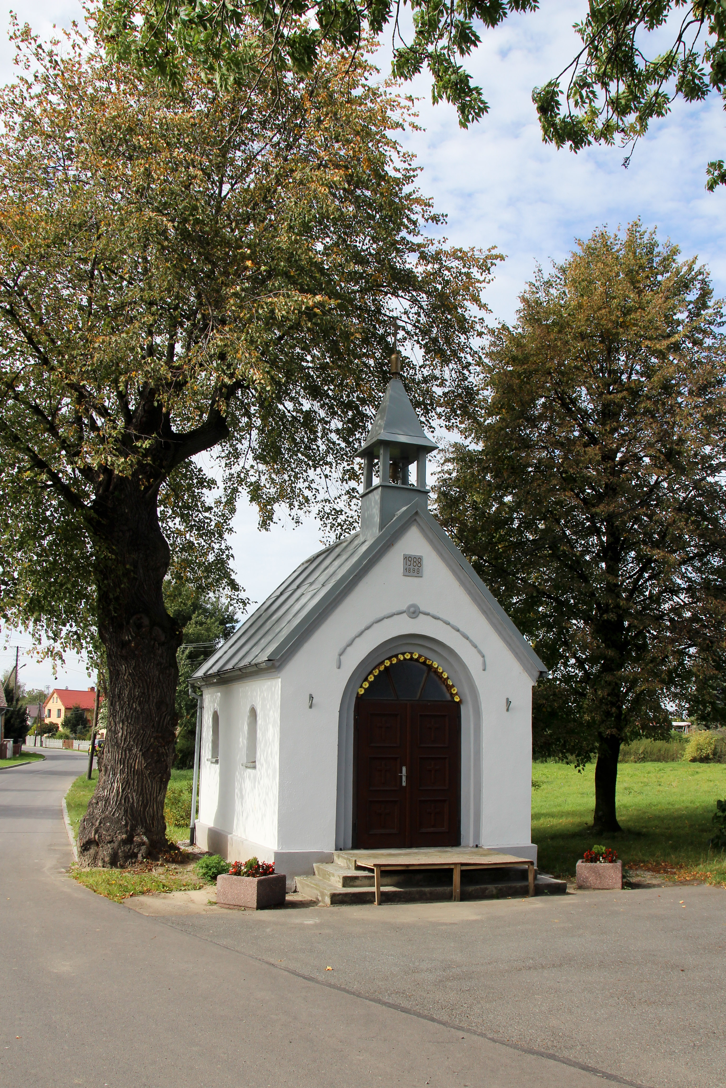 Chapel in Dobieszów, Poland.